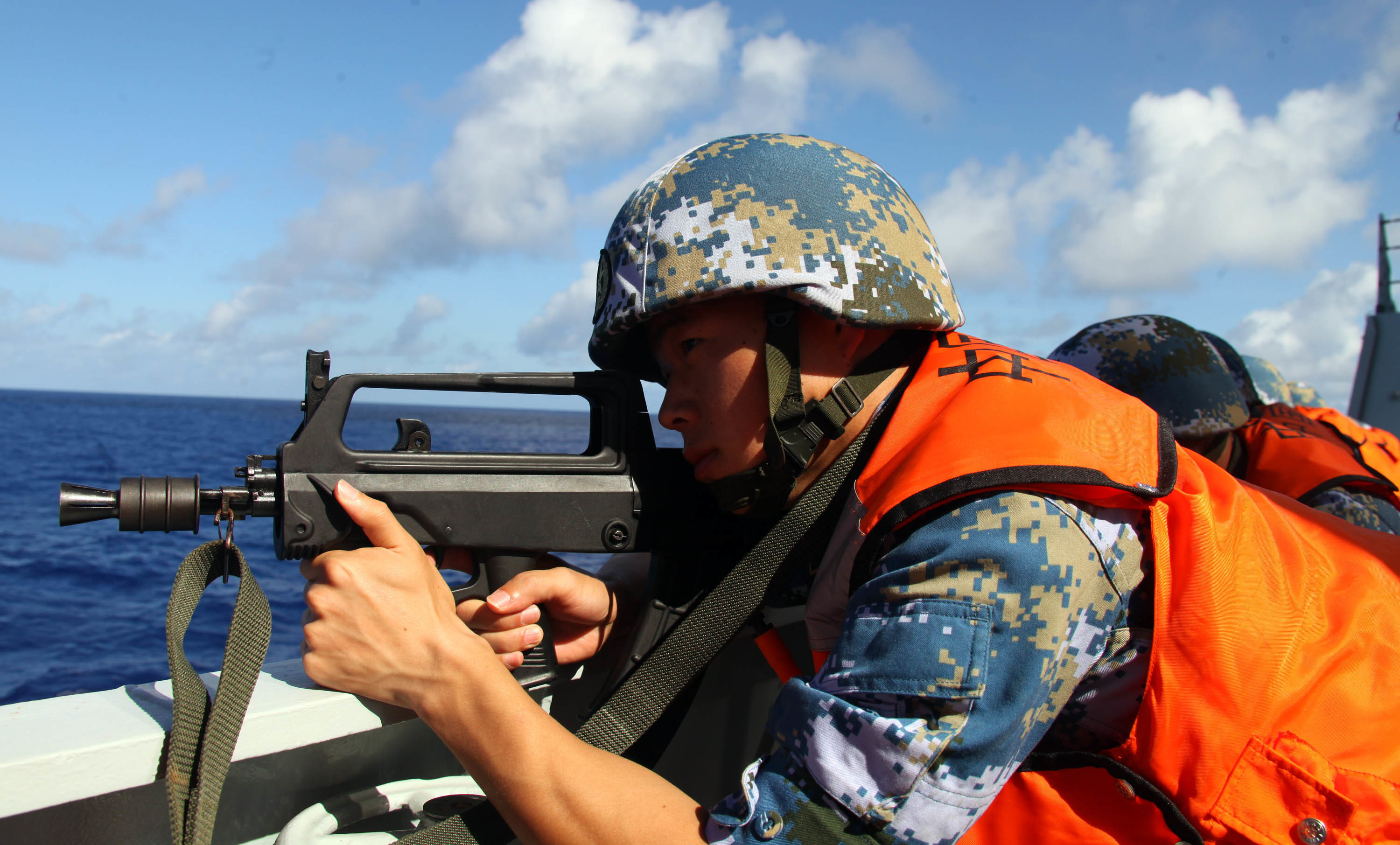 160714-N-MV764-001 PACIFIC OCEAN A Chinese navy sailor aboard Chinese navy multirole frigate Hengshui maintains visual contact of a target while participating in a visit, board, search and seizure exercise between China, Indonesia, France and the United States, during Rim of the Pacific 2016. Twenty-six nations, more than 40 ships and submarines, more than 200 aircraft and 25,000 personnel are participating in RIMPAC from June 30 to Aug. 4, in and around the Hawaiian Islands and Southern California. The world's largest international maritime exercise, RIMPAC provides a unique training opportunity that helps participants foster and sustain the cooperative relationships that are critical to ensuring the safety of sea lanes and security on the world's oceans. RIMPAC 2016 is the 25th exercise in the series that began in 1971. Unit: Commander, U.S. 3rd Fleet DVIDS Tags: china; RIMPAC